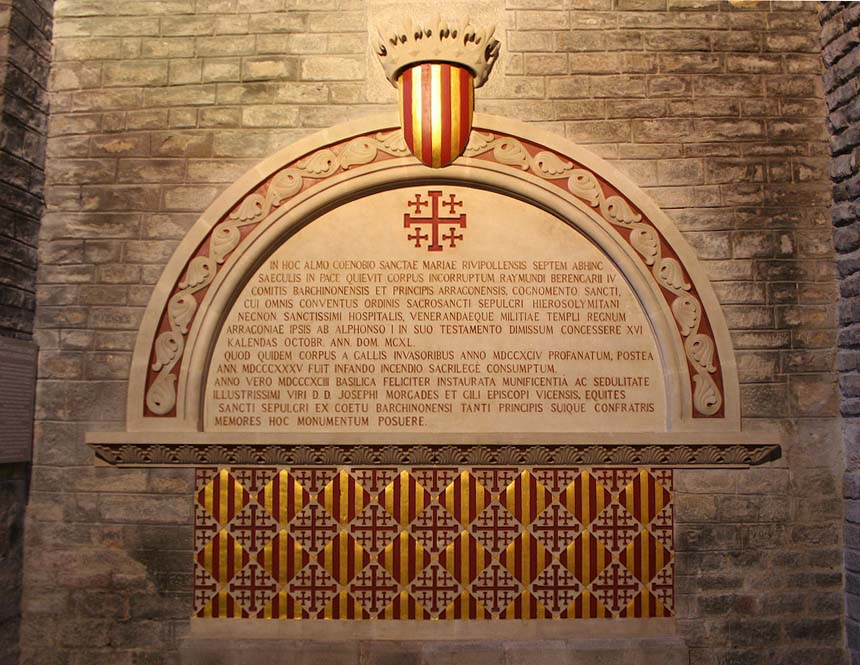 Cenotaph of Ramon Berenguer IV built in 1893 and paid by the Order of the Holy Sepulchre. Located in the Ripoll Monastery